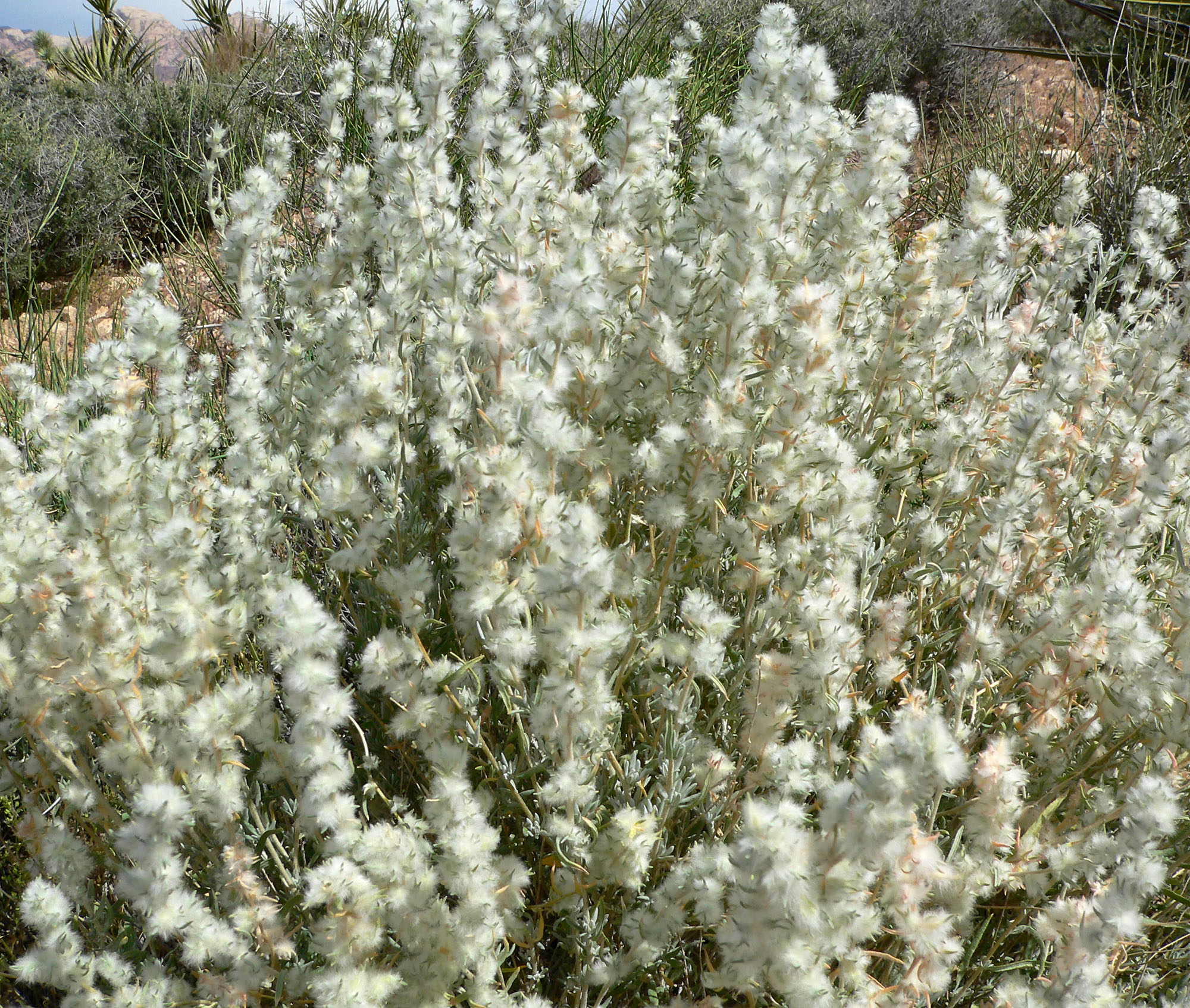 Blooming Krascheninnikovia lanata - the 'Winterfat' plant. Growing in the southern end of Red Rock Canyon, near Blue Diamond, southern Nevada.